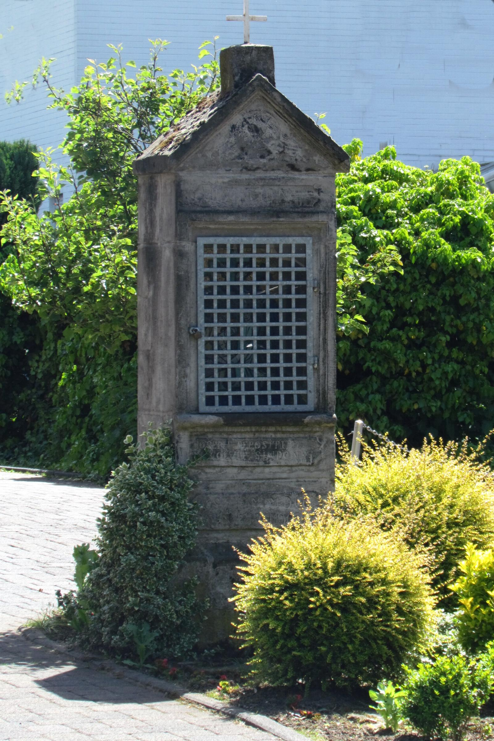 This is a photograph of an architectural monument.It is on the list of cultural monuments of Korschenbroich